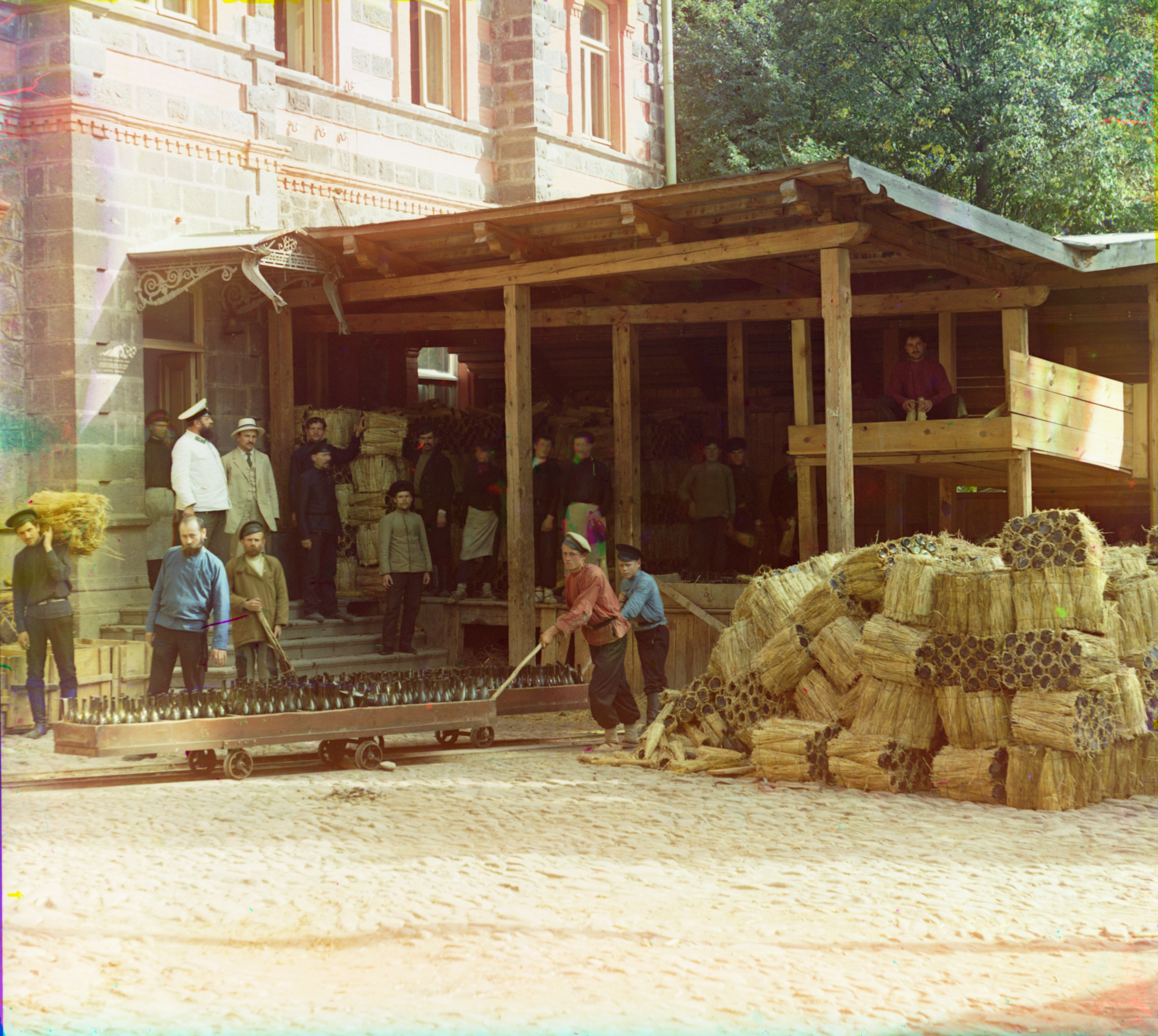 Distributing of water. Borzhom.